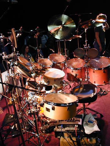 Jonathan Moral